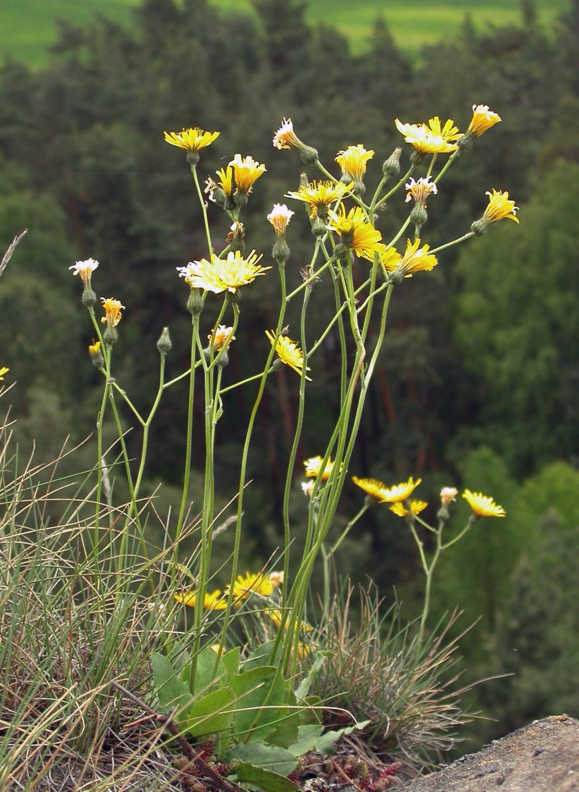 Flowering Hieracium bifidum in Vranovské skály near Ralsko, Czech Republic